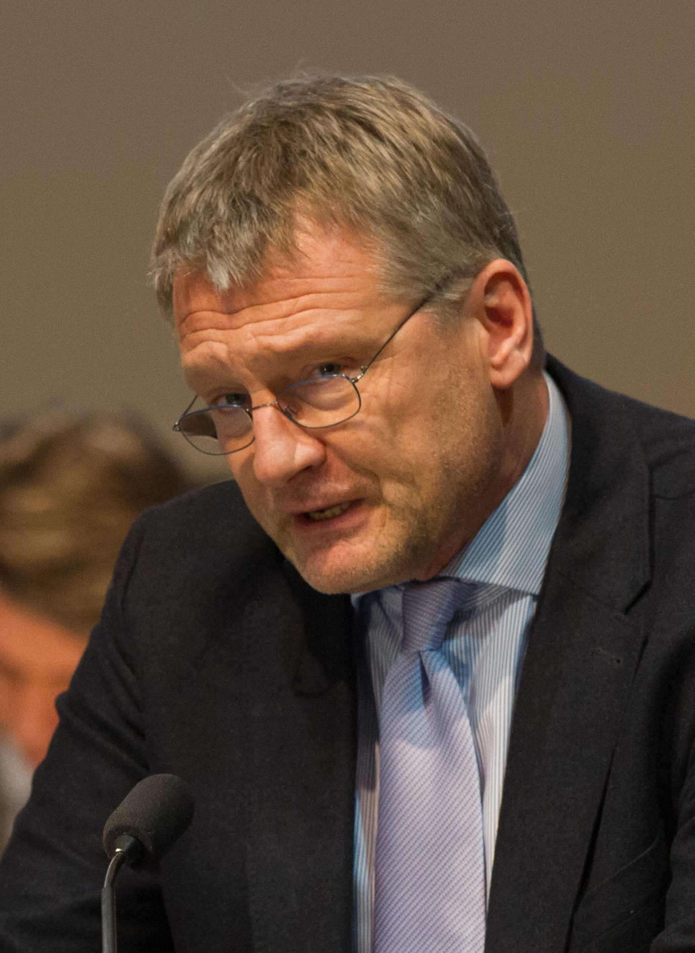 Series: 6th party convention of the AfD Baden-Württemberg in Karlsruhe-Neureut on 17 and 18 January 2015.Image: Jörg Meuthen